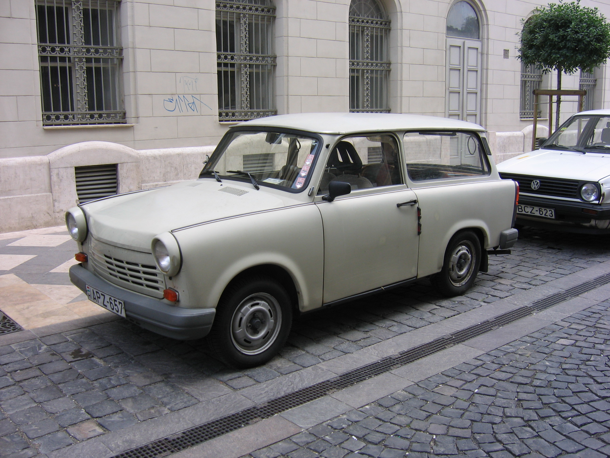 Trabant 1.1 Universal (station wagon) in Budapest